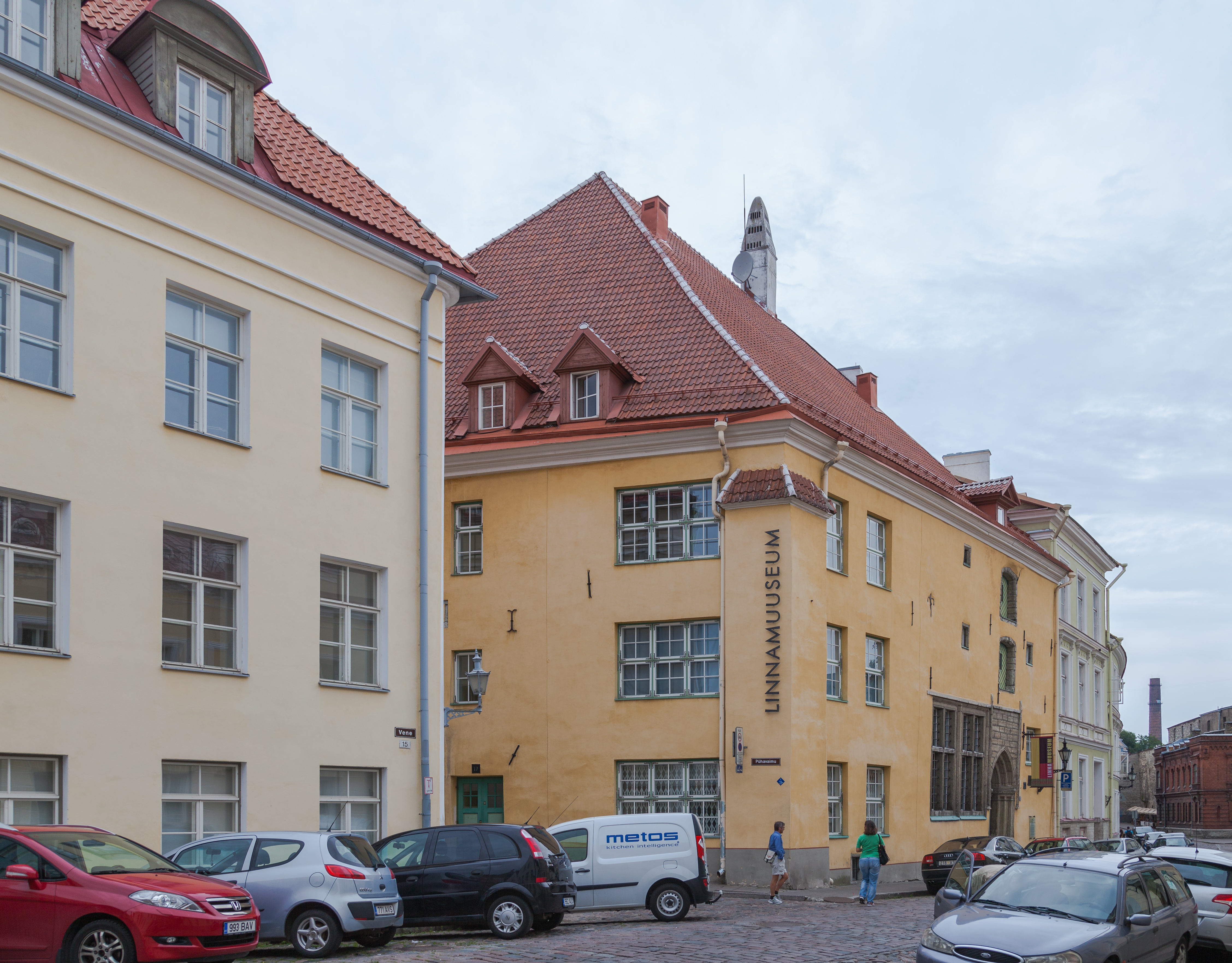 City Museum, Tallinn, Estonia